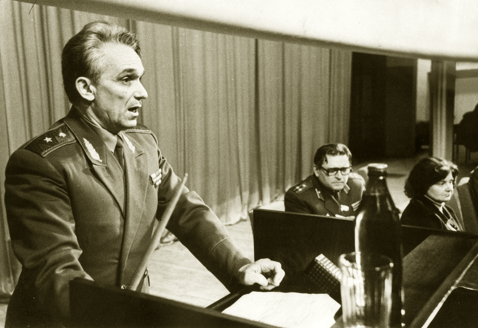 Kliorin A. I. MD. Professor of Pediatrics, Kliorin A. I. MD. Major-general, professor of Pediatrics